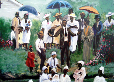 Thee Baptism II 18x24, original,1997 Art of Ted Ellis